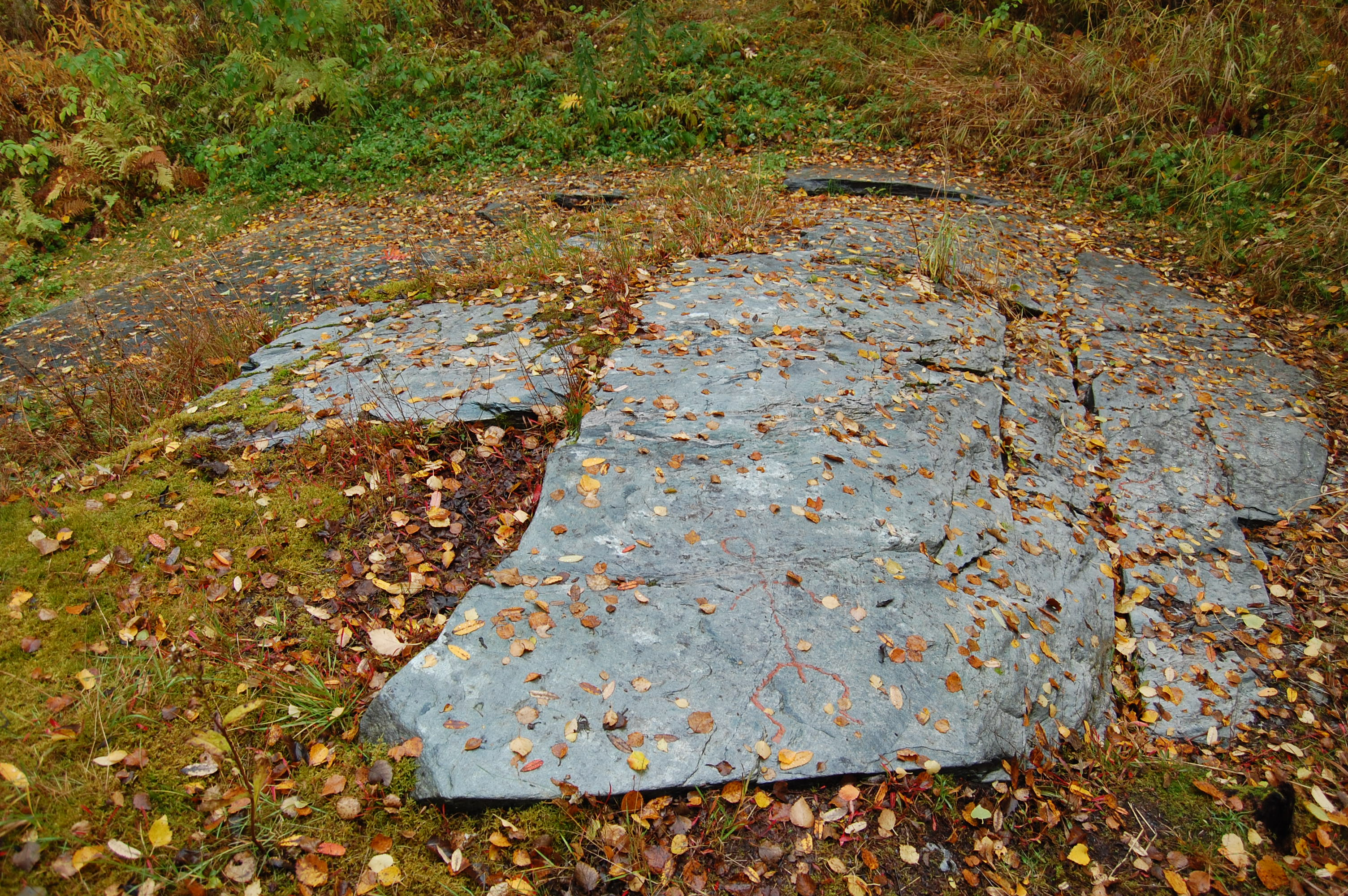 Graabergan rock carving field at Tennes in Balsfjord (Norway)